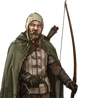 a Ranger, character of the Videogame Battle for Wesnoth